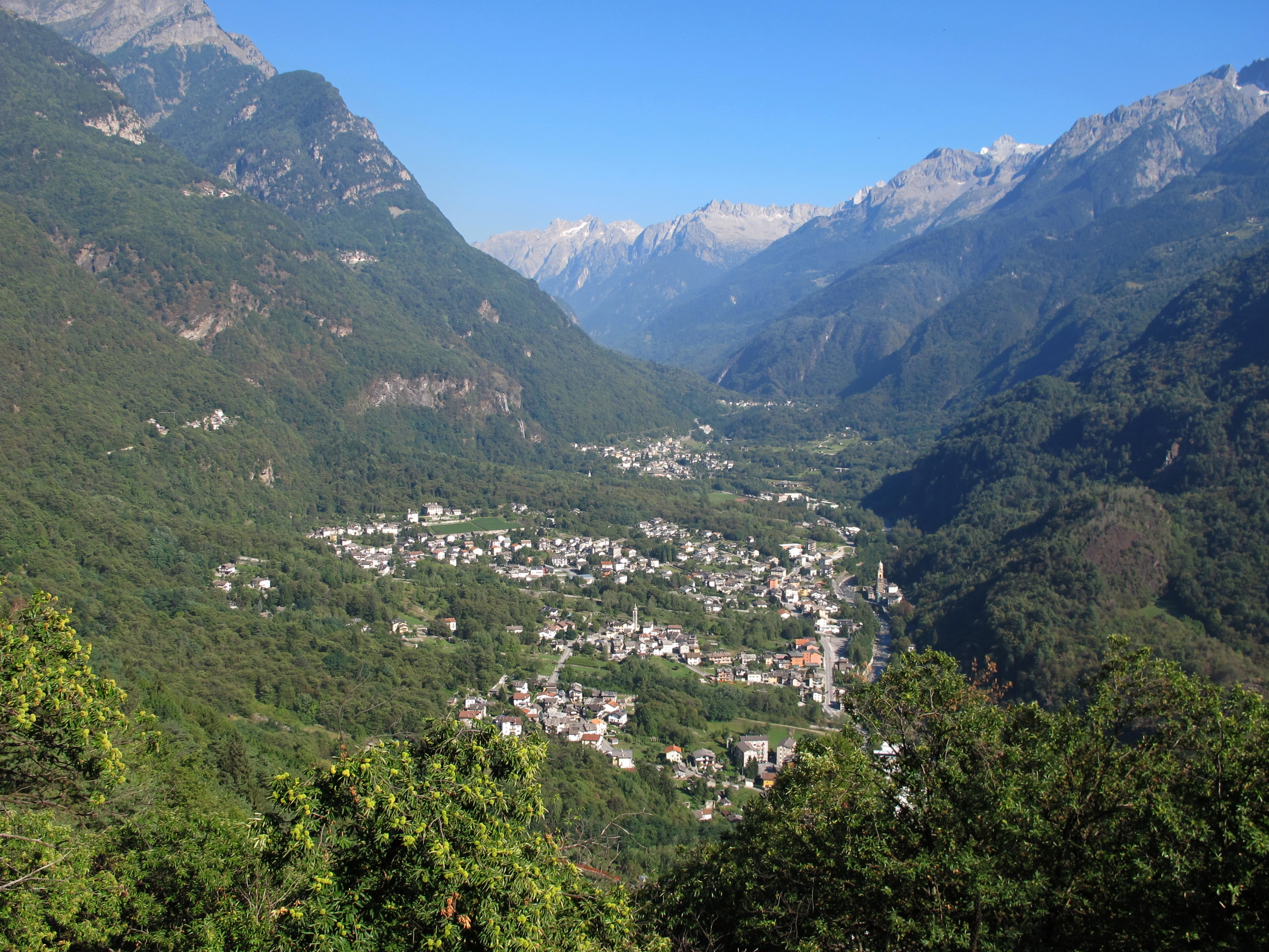 Italy, Lombardy, Prosto and Piuro